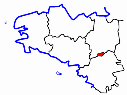 Description: Map for localisazion of cantons of Bretagne region in France Source: made by Hervé Tigier from another large map